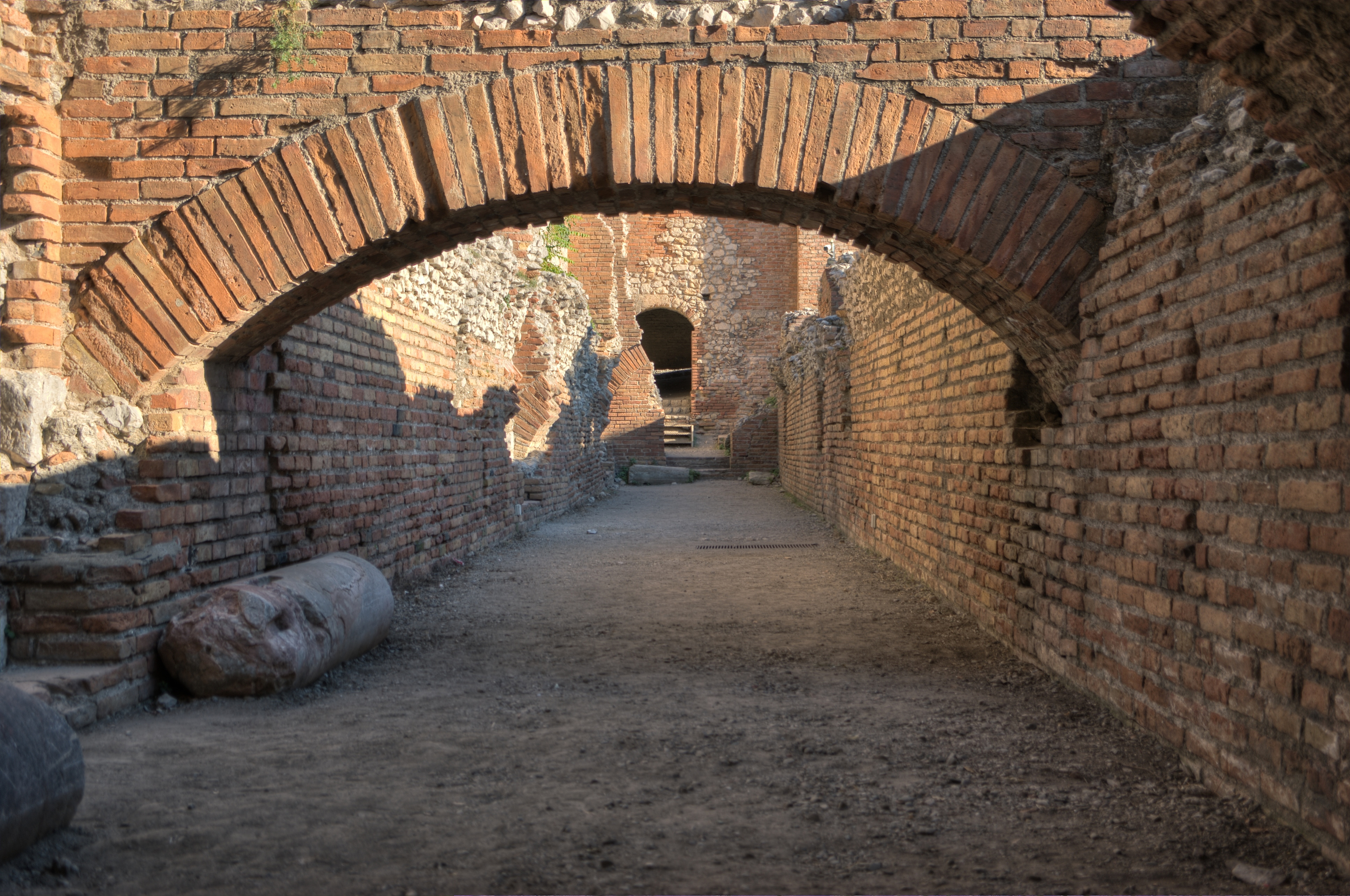 Italy, Sicily, Taormina, ancient theatre